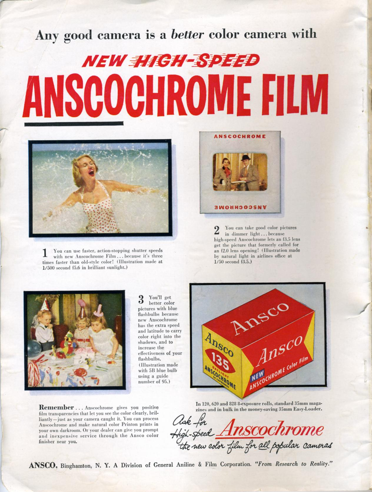 Scan of advertisement for newly introduced film.